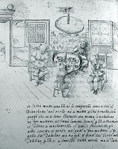 I tre libri dell'arte del vasaio, by Cipriano Piccolpasso (1524 Casteldurante – 21 November 1579) was an architect, historian, ceramist and painter of Italian majolica, author of several treatises on ceramics and design of fortresses.